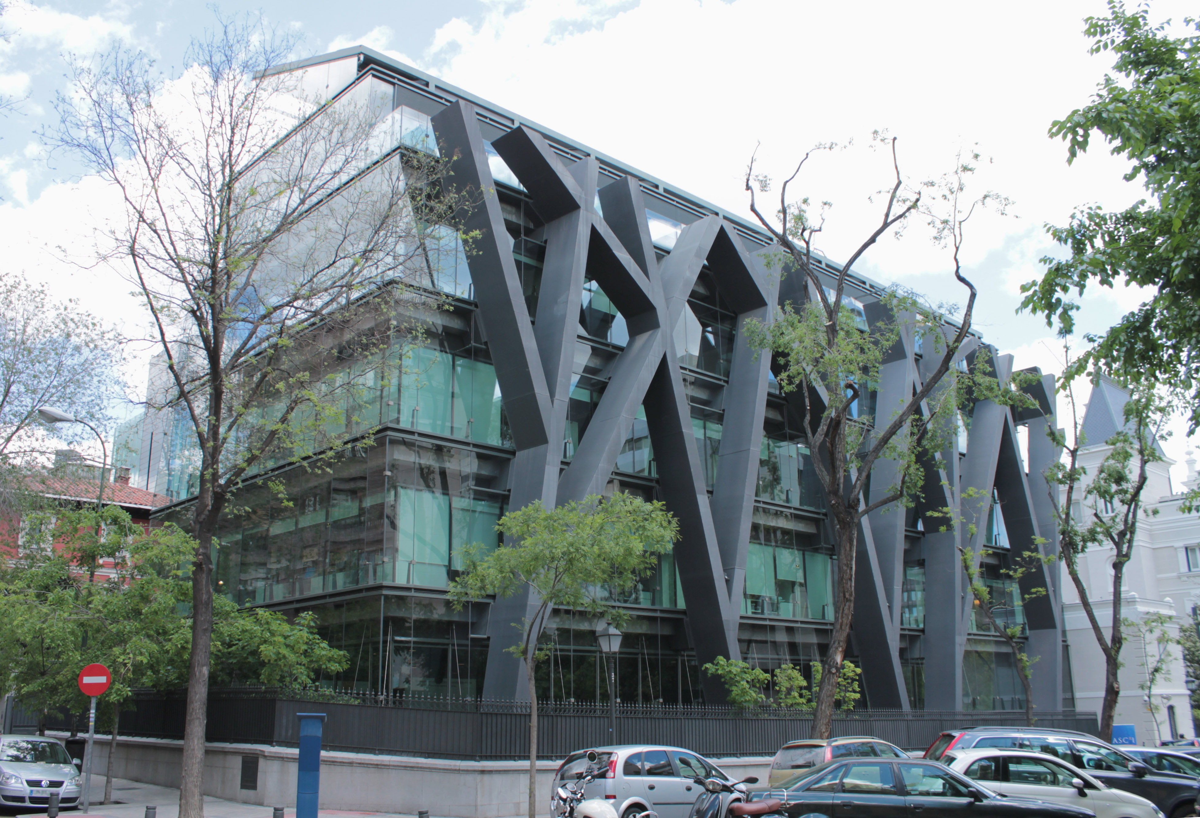 Façade of Auditorio Rafael del Pino in Madrid (Spain).